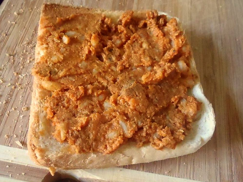 A sandwich with paprykarz szczeciński